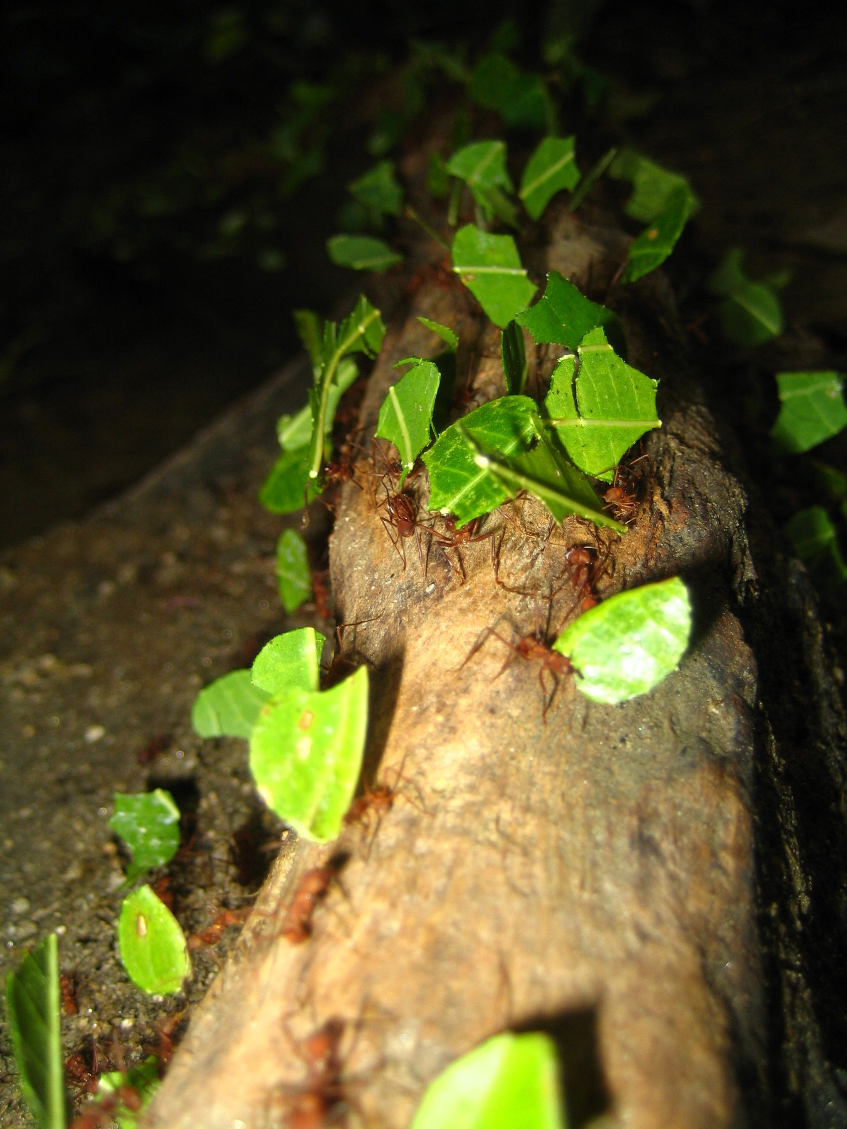 Leafcutter ants in Colombia